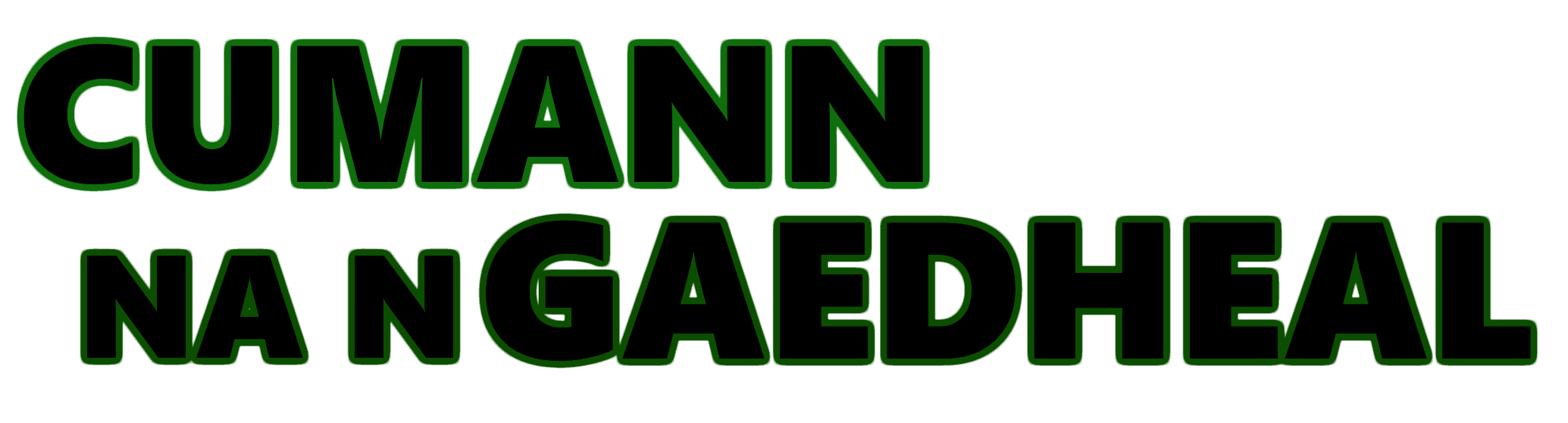 Logo of the Cumann na nGaedheal Irish political party.